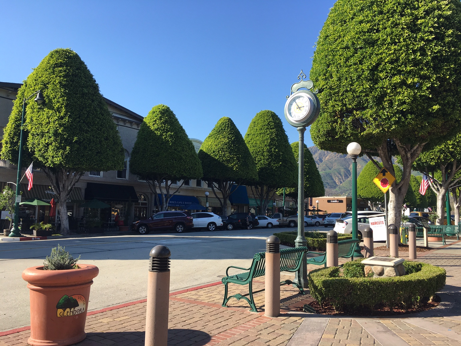 Quaint downtown Glendora with its famous Ficus trees.